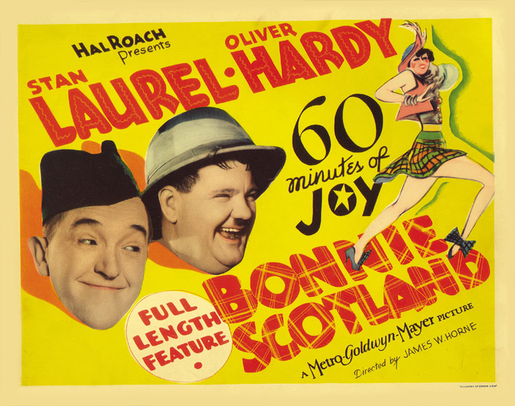 Lobby card for the Laurel and Hardy film Bonnie Scotland, also known as Heroes of the Regiment upon rerelease